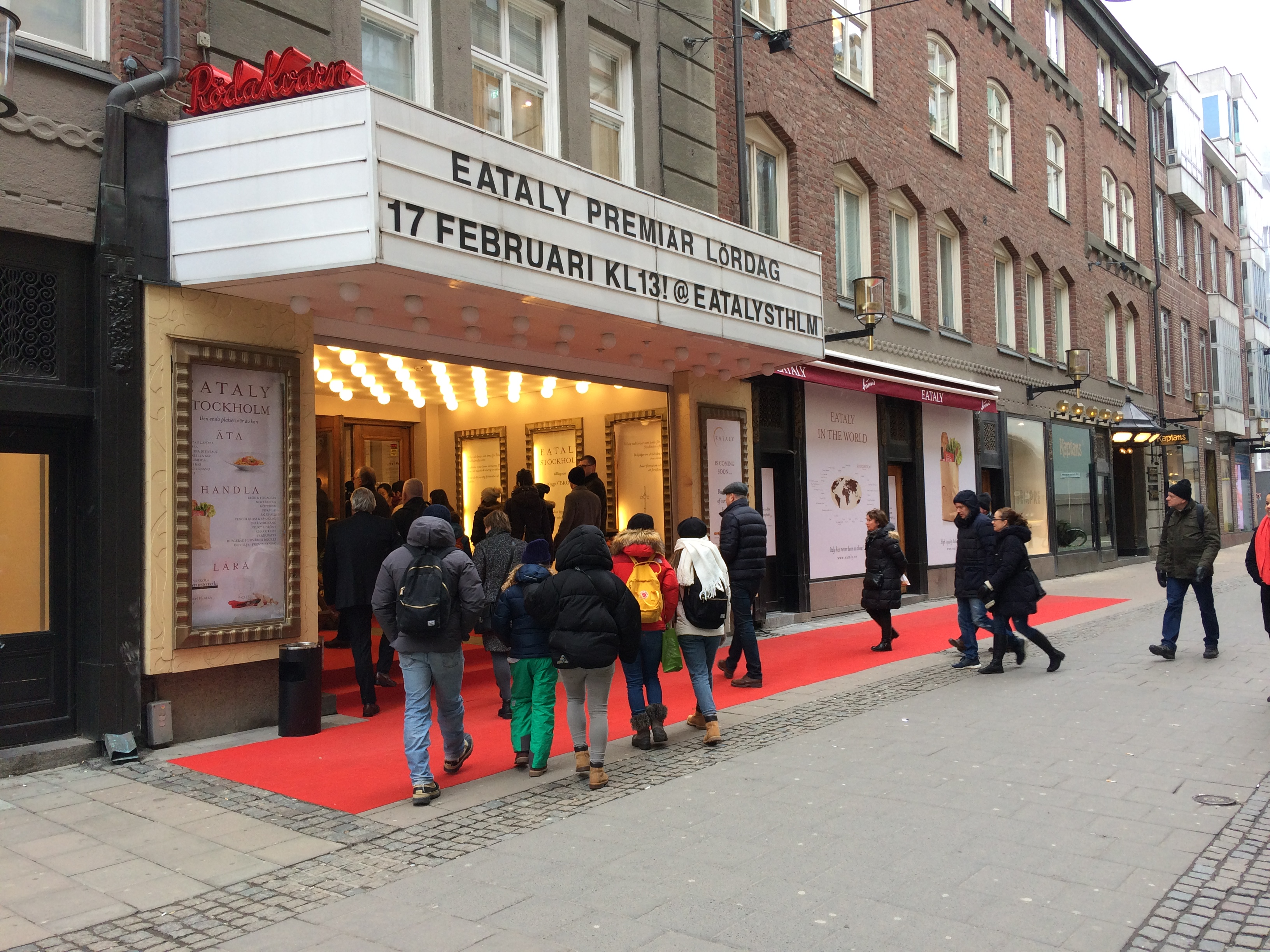 Eataly on Biblioteksgatan 5 in Stockholm, 18 february 2018 (day after the grand opening).